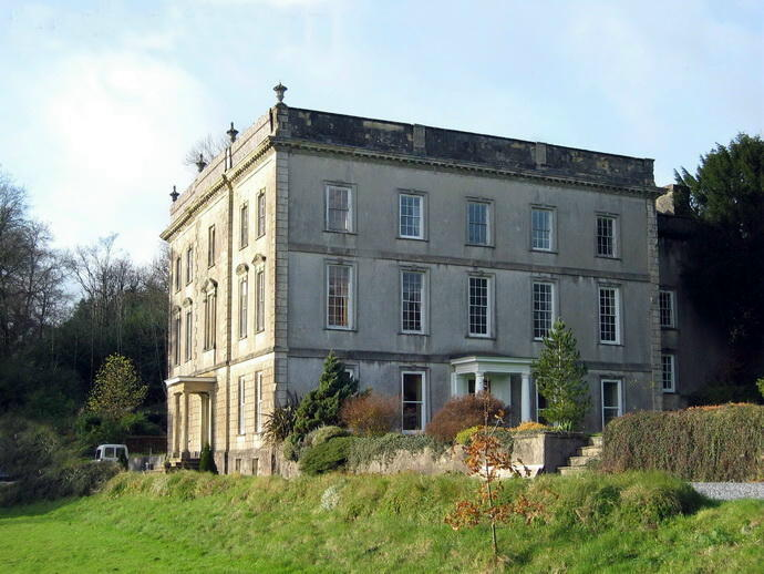 A high status house has existed on this site since the fourteenth century. In 1670 the mansion was reported to have contained 17 hearths. The first known occupants to reside at Taliaris were the Gwynne Family. In 1787 the house was bought by Lord Robert Seymour. He died in 1831, aged 83, and his widow then sold the house and estate in 1833 to Robert Peel, a Lancashire businessman (first cousin to Sir Robert Peel who founded the police force). The present mansion was remodelled during this period (circa 1833). The house remained in the family until 1954. Within the house are wall paintings and a stairway dating from the seventeenth century. Other interesting features include a former cockpit which was raised and roofed during the early nineteenth century and used a game larder.